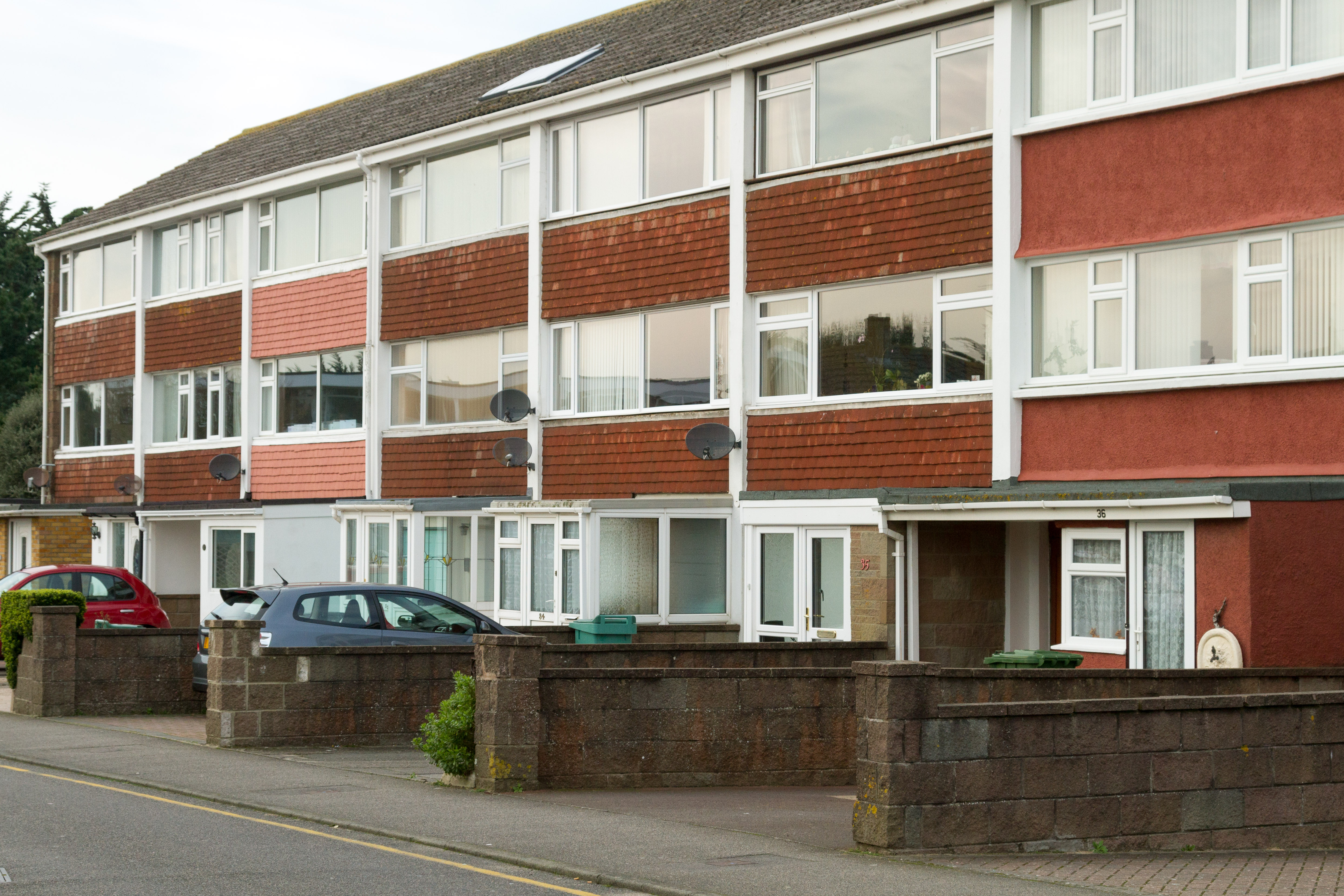 Terrace housing in St Brélade in Jersey.